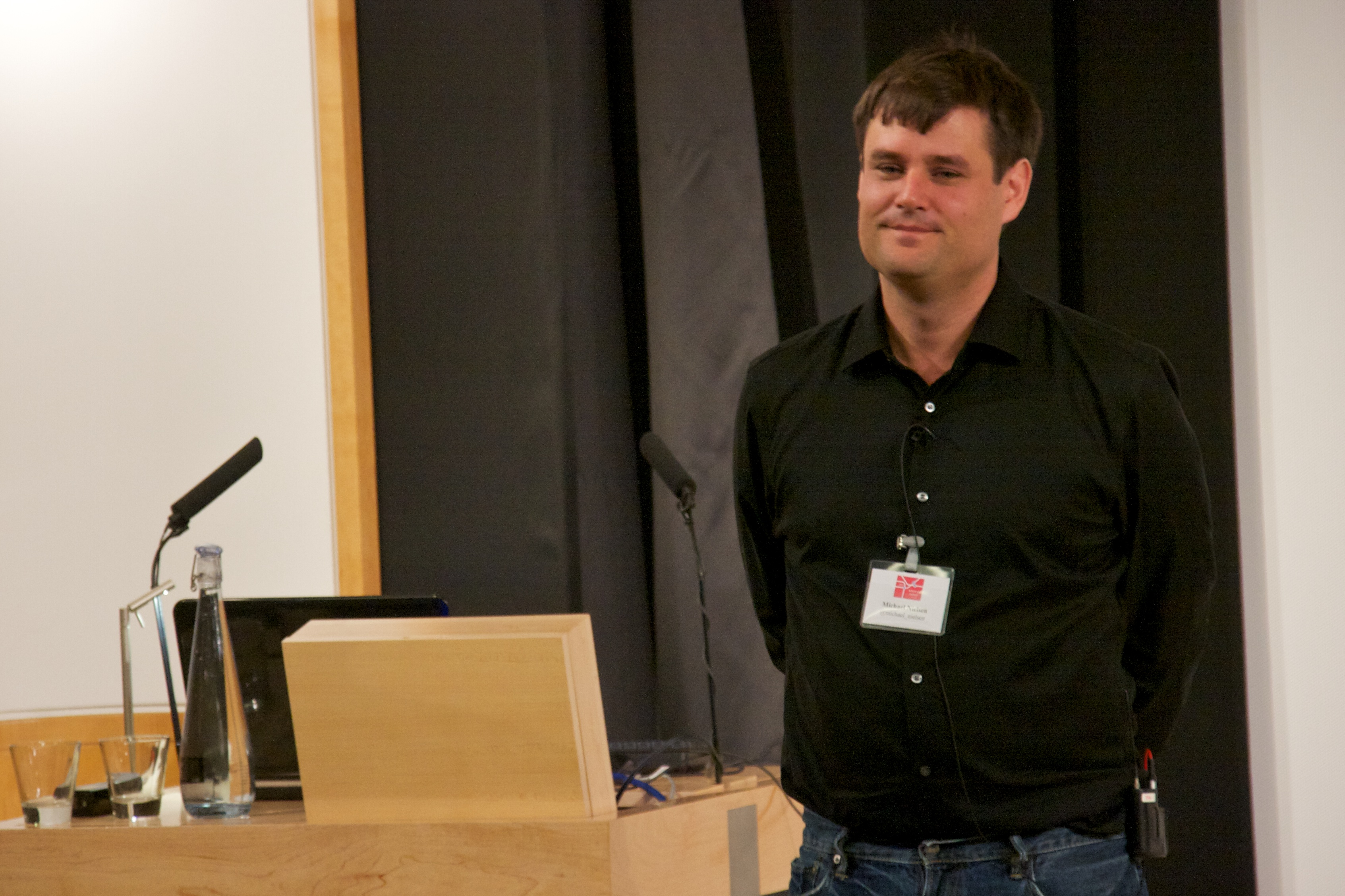 Michael Nielsen, talking at the Science Online London 2011 conference